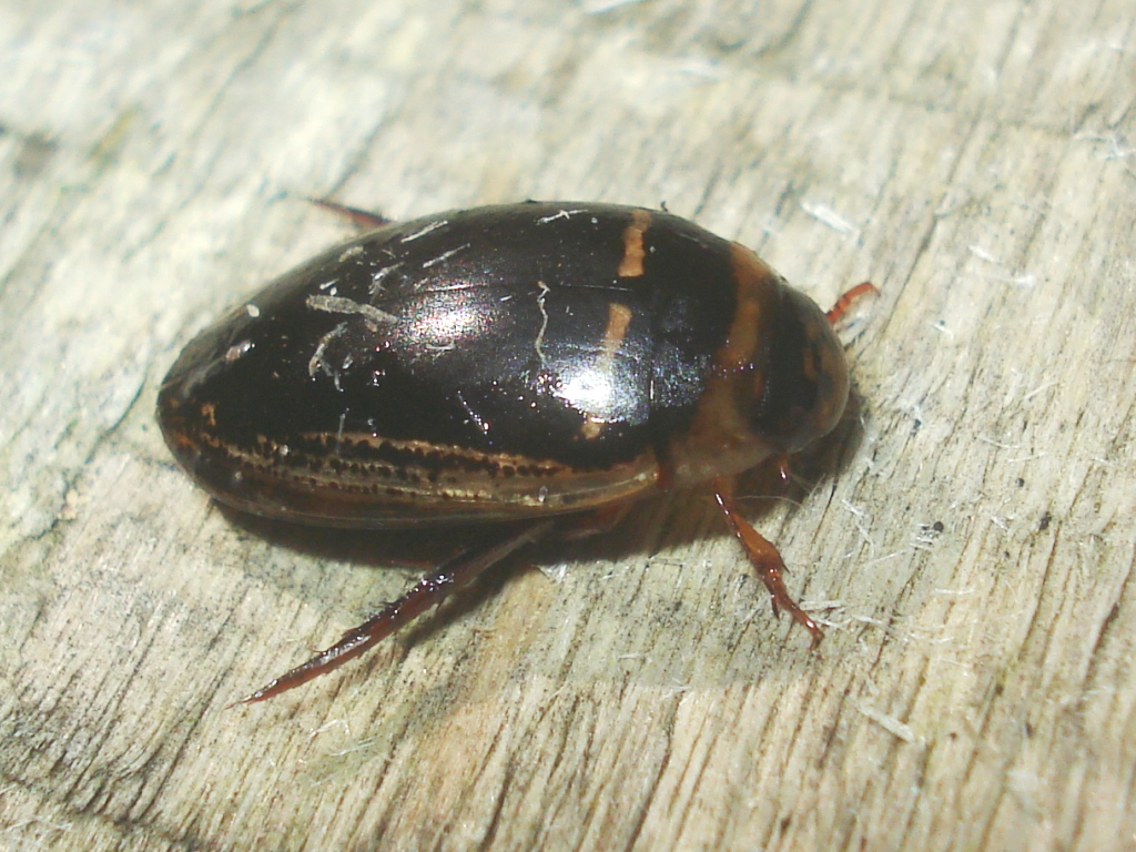 Hydaticus transversalis